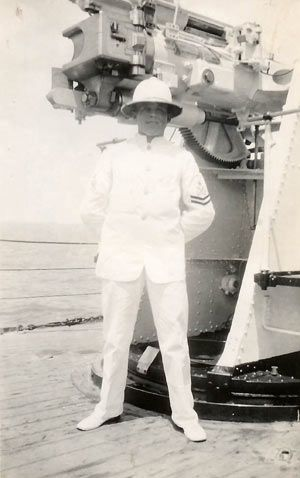 Petty Officer Claude Choules aboard HMAS Canberra. Comment : in the background is a QF 4-inch Mk V anti-aircraft gun.